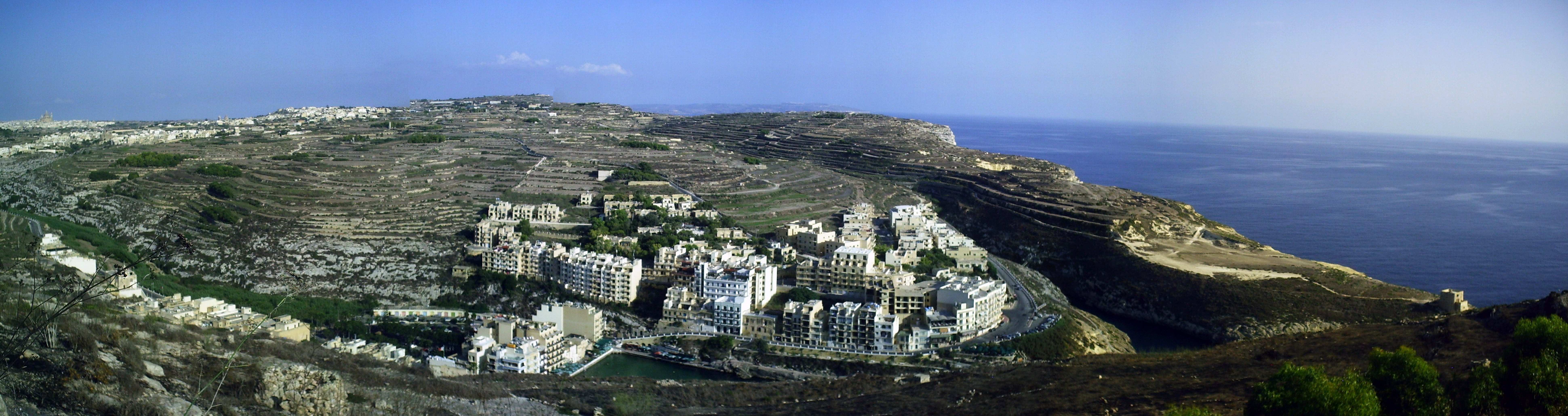 A panoramic shot showing the fishing village of Xlendi, Gozo, Malta.